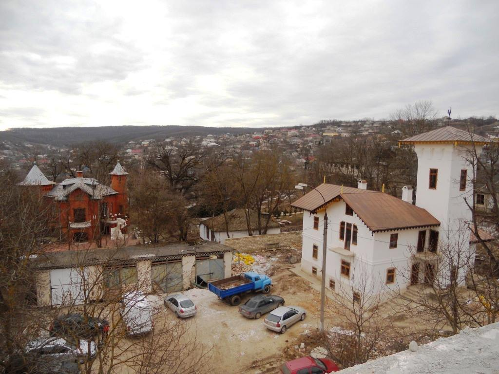 Restoration of mansion of Manuc Bei, located in Hîncești, Republic of Moldova